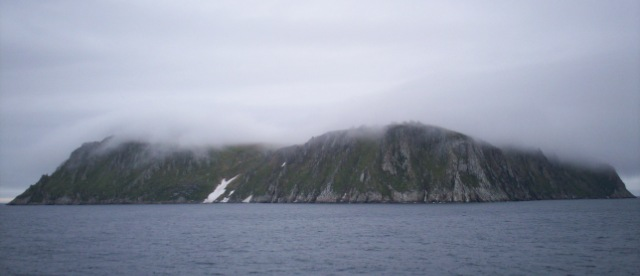 King Island, Alaska. The large boulders on the top of the island are barely visible through the fog. The abandoned village is in the vicinity of the snow drift.